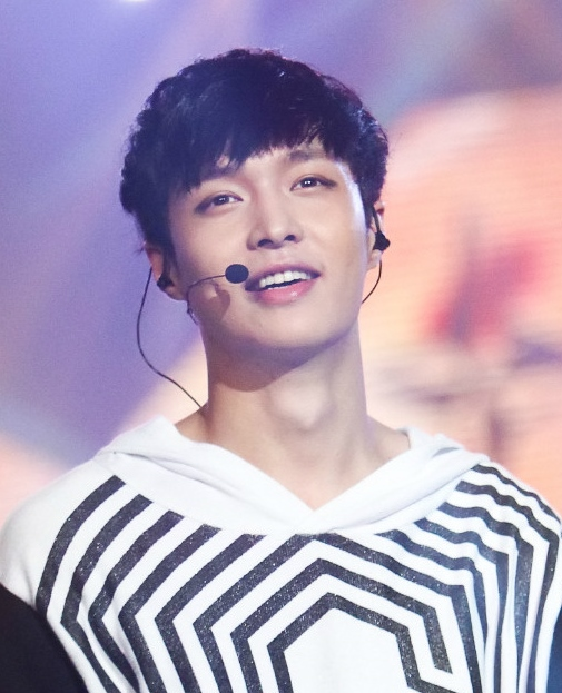 Lay Zhang at the EXO The Lost Planet in Singapore on August 23, 2014.